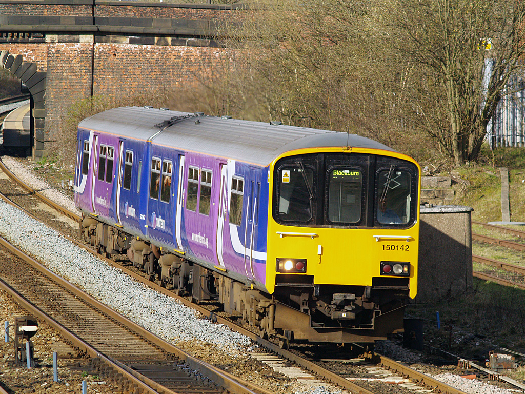 Northern Rail (leased from Angel Trains) former British Railways British Rail Engineering Limited class 150/1 ‘Sprinter’ two car diesel-hydraulic multiple unit number 150142 (57142 and 52142) of Newton Heath TMD passes Castleton East Junction on the Up Main line forming the 17:03 (SO) Rochdale to Blackburn (2N53). Saturday 12th April 2008